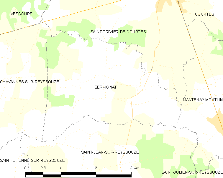 Map of French commune: Servignat Map commune FR insee code 01406.png